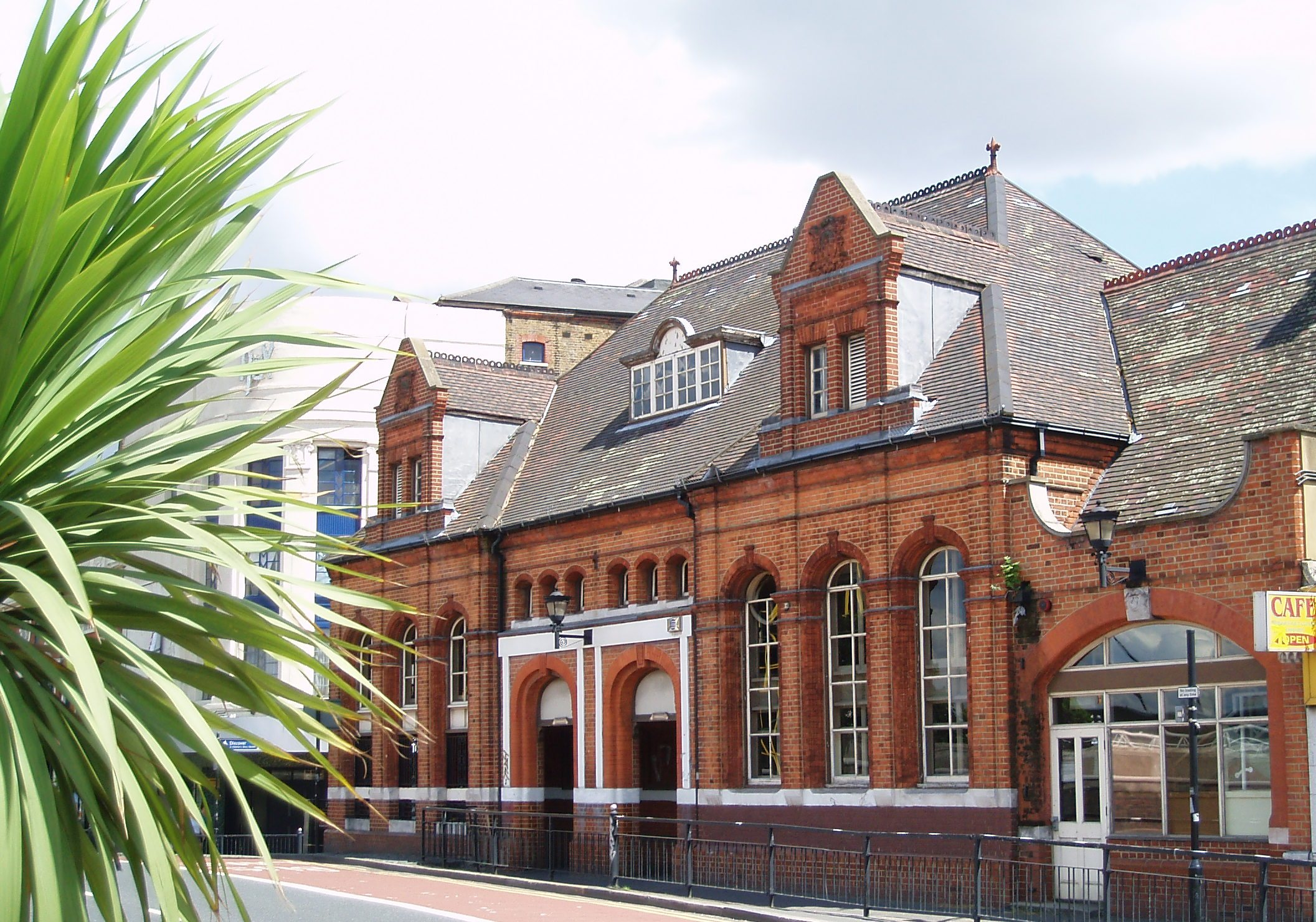 The old Stratford Market Station building.